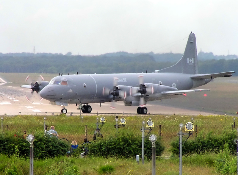 Canadian Armed Forces Lockheed CP-140 Aurora {140102) at Geilenkirchen AB, Germany.